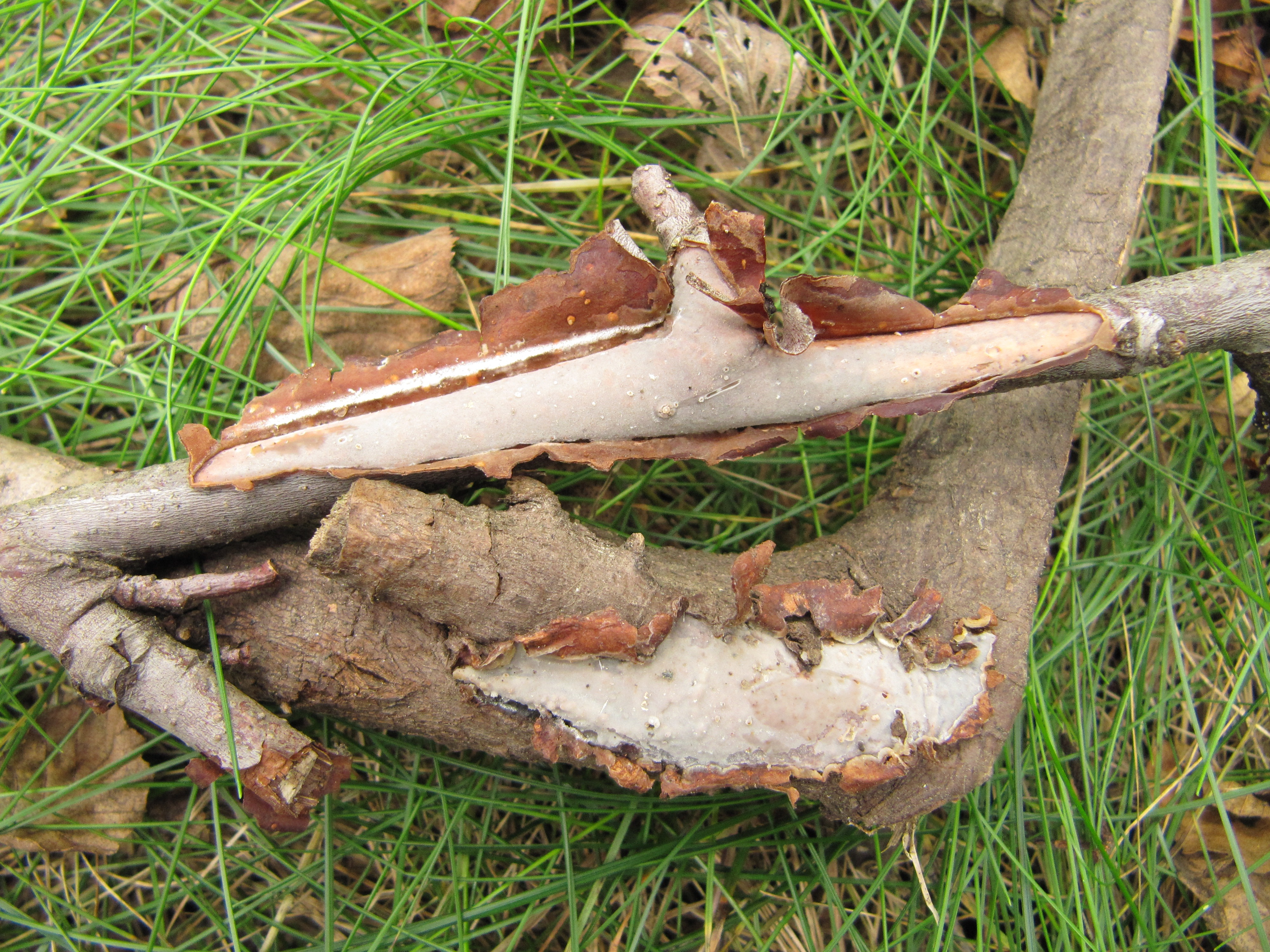 Vuilleminia alni